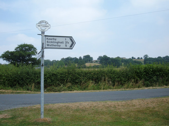 Signpost at Spring Moor. This signpost is at the crossroads of Spring Lane/Wharfe Lane/Moor Lane just to the north of Netherby. Note "Yorks WR" (West Riding of Yorkshire) on the top of the post. I think the land to the north of the River Wharfe hereabouts is now in North Yorkshire. The illegible arm of the signpost is pointing up Moor Lane to Barrowby.